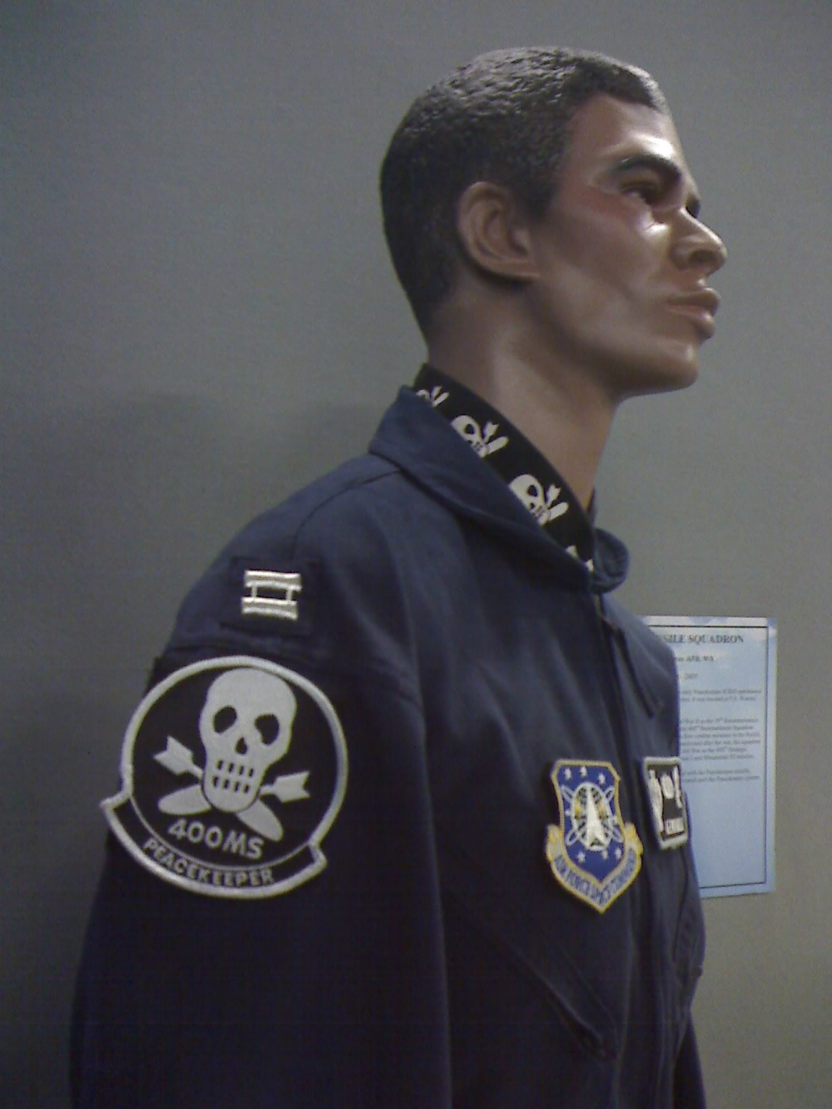 A Peacekeeper missile uniform showing a modified skull and crossbones symbol. At PAFB air museum.